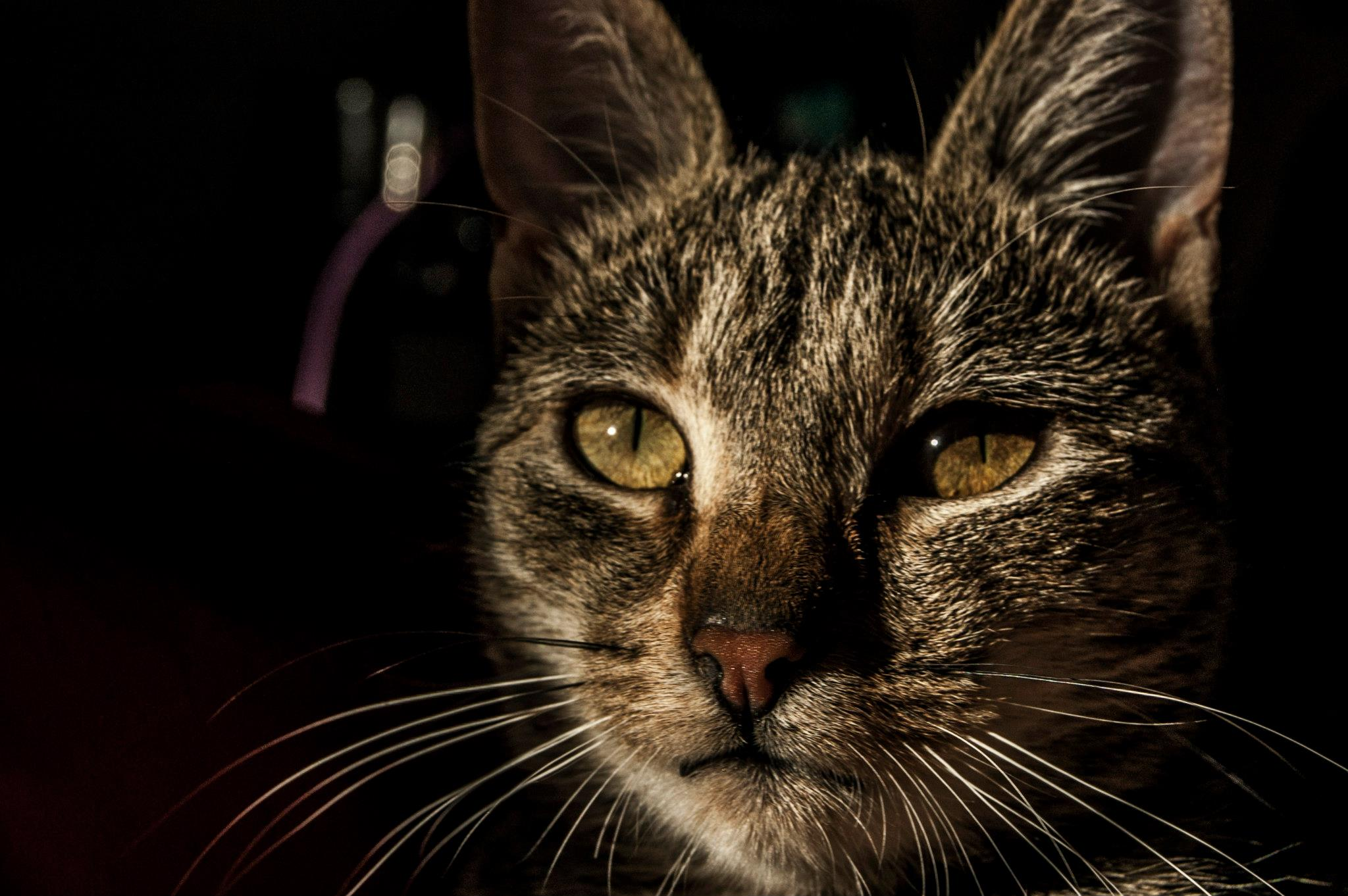 kittun